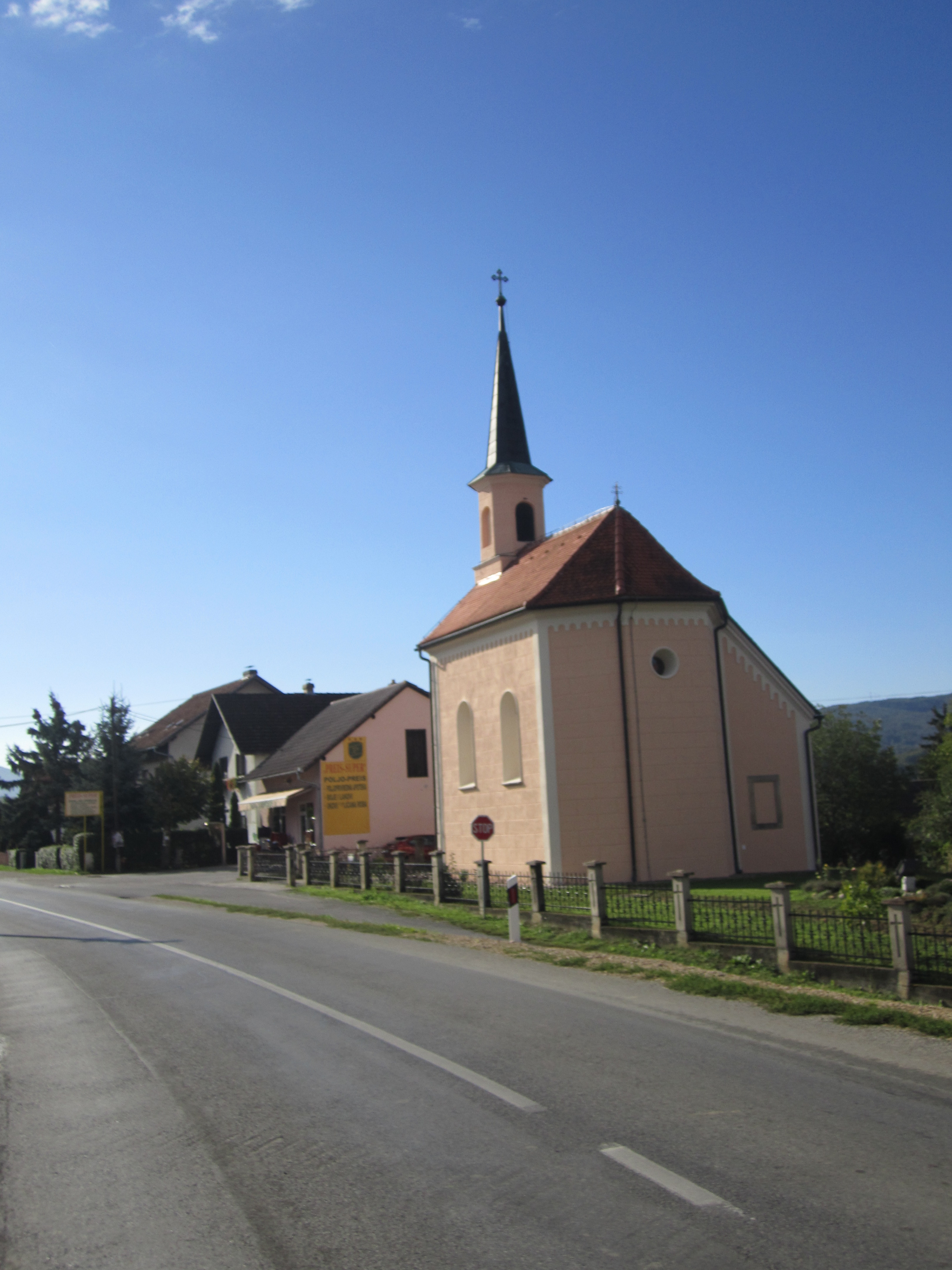 Chapel in Tugonica (Croatia)